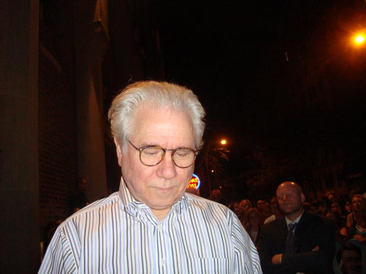 John Larroquette, New York, August 2011. Courtesy of Stav Adler